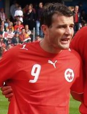 Alexander Frei before the friendly match against China on June 3, 2006